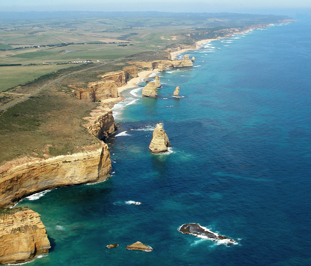 Port Campbell National Park, Australia, Twelve Apostles sea stacks from helicopter